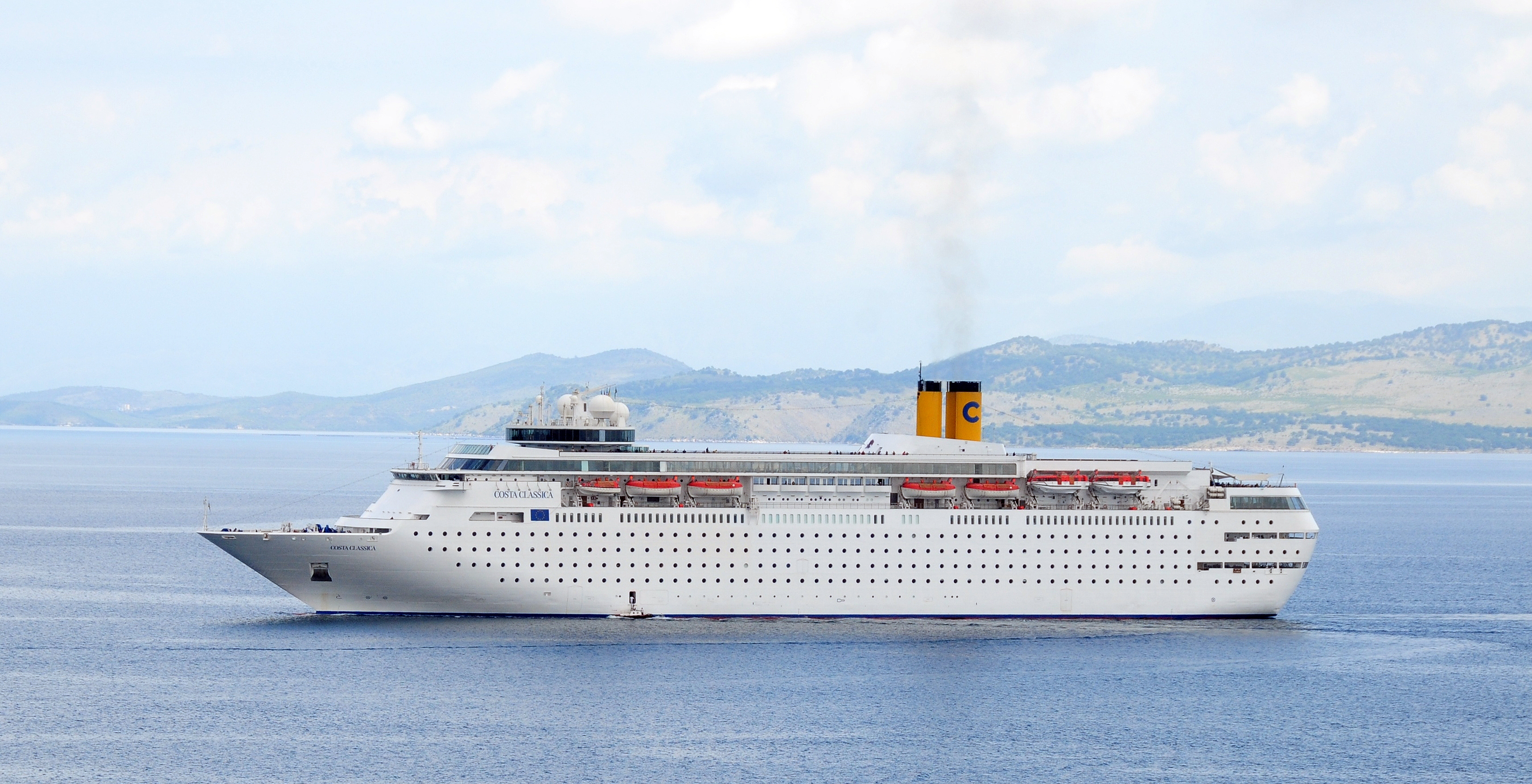 Approaching dock in Kerkyra